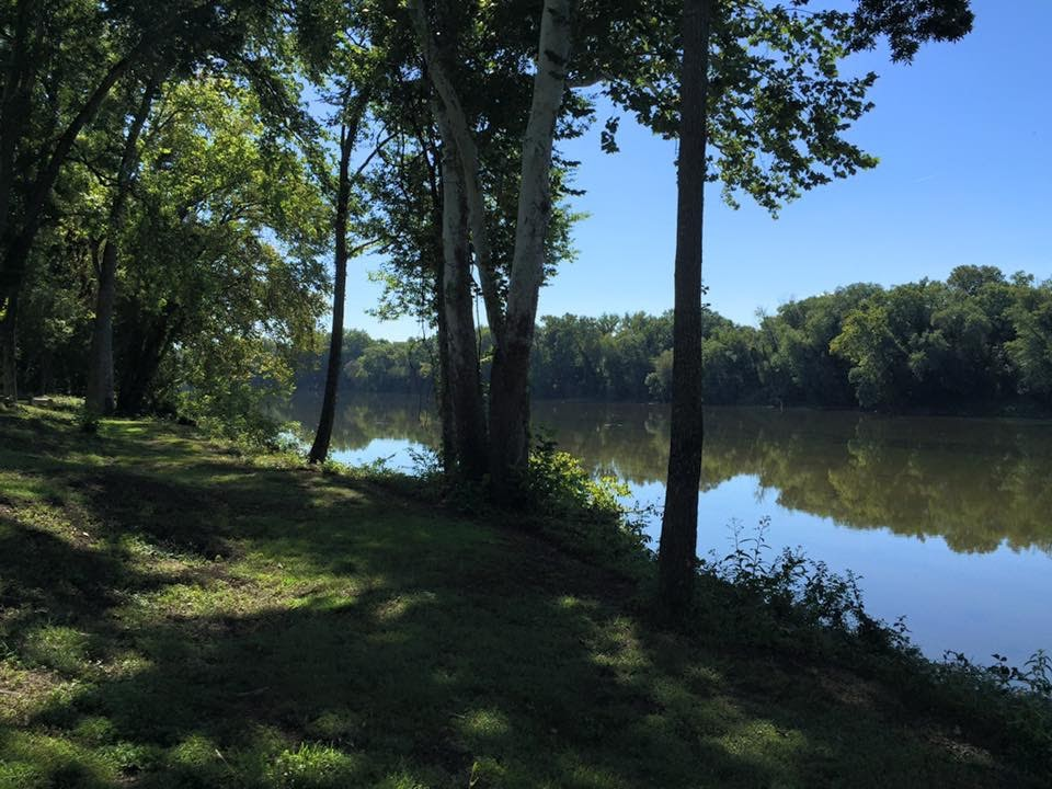 Photo of the James River taken at Powhatan State Park, Virginia, USA